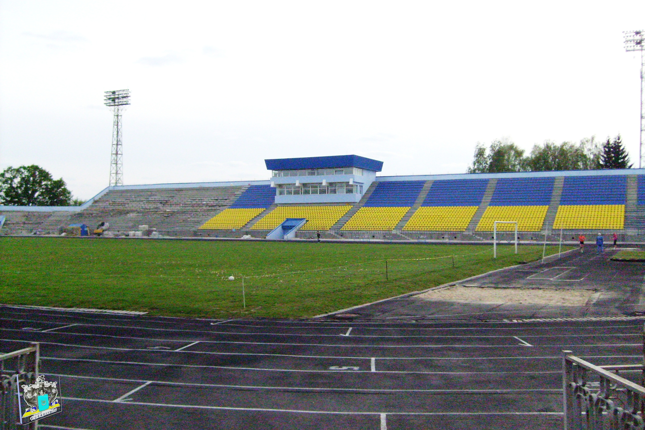 Central Stadium in Zhytomyr, Ukraine